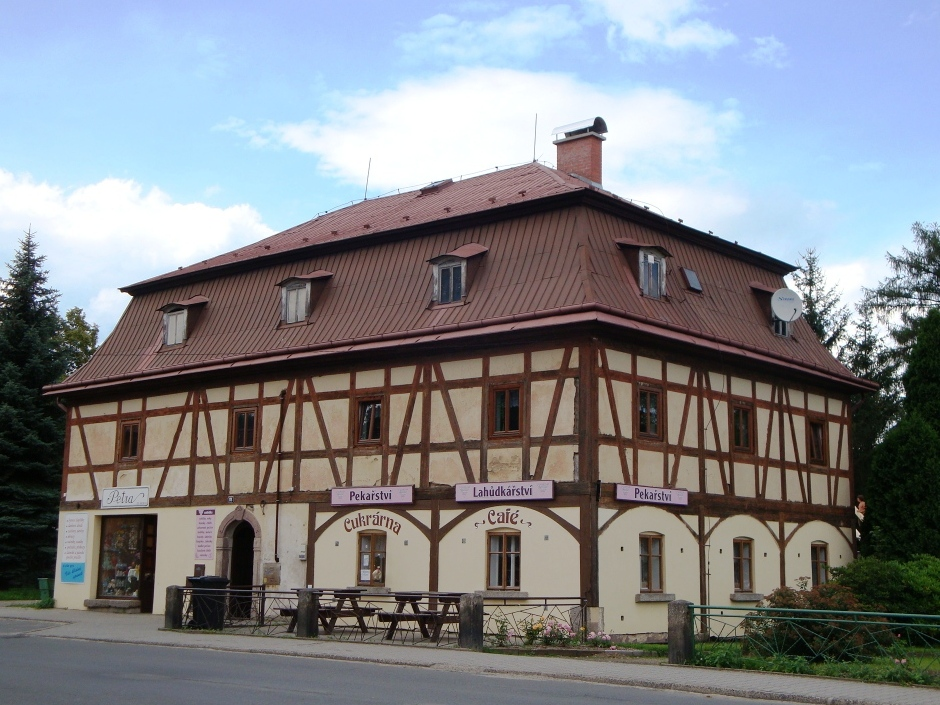 Hejnice, Riedel's house